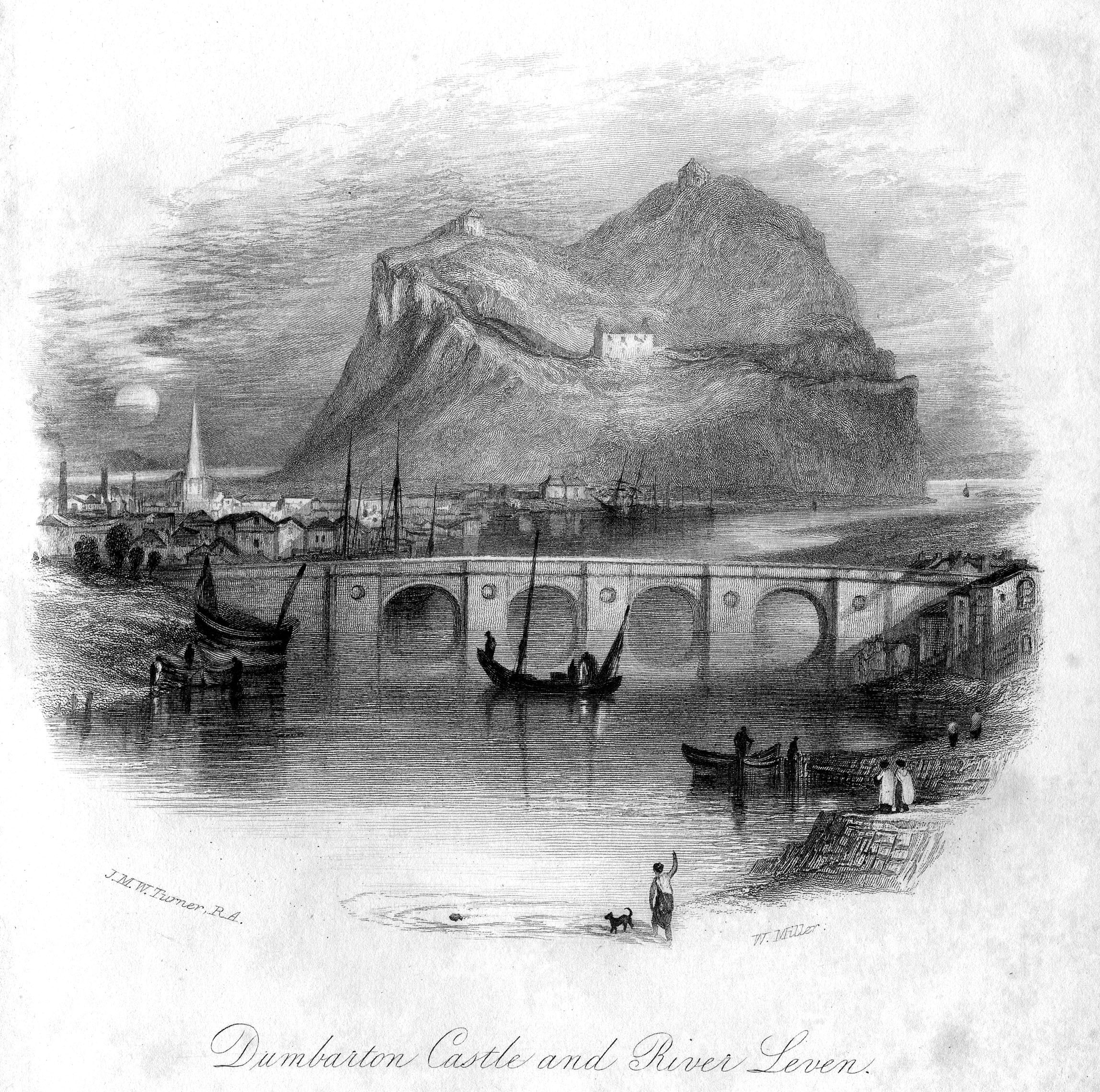 Dumbarton Castle (Rawlinson 518) engraving by William Miller after Turner, published in The Miscellaneous Prose Works of Sir Walter Scott, Bart. Embellished with Portraits, Frontispieces, Vignette Titles and Maps. The Designs of the Landscapes from Real Scenes by J.M.W. Turner, R.A.. Edinburgh: Robert Cadell, Edinburgh; Whitaker, Arnot, and Company, London; John Cumming, Dublin 1834 - 1836